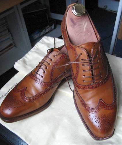 Pair of full brogue shoes by Italian shoe manufacturer Santoni